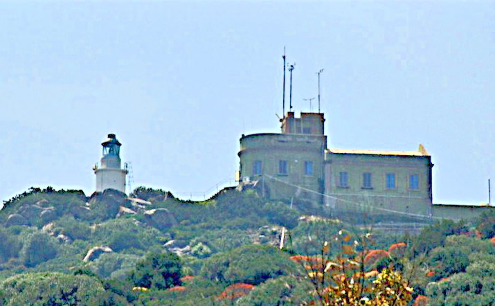 Capo Carbonara, the southeastern corner of Sardinia, is jutting out from the coast at San Stefano. Located just southeast of the town.